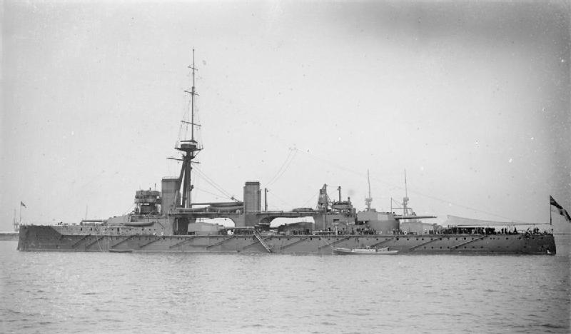 British Battleships of the First World War HMS COLOSSUS as completed.